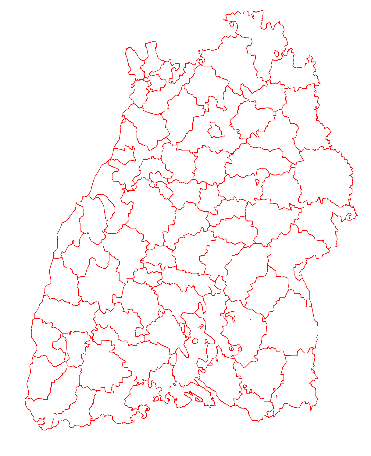 Map of the former counties in Baden-Württemberg before the reform (status between 1956 and 1967)